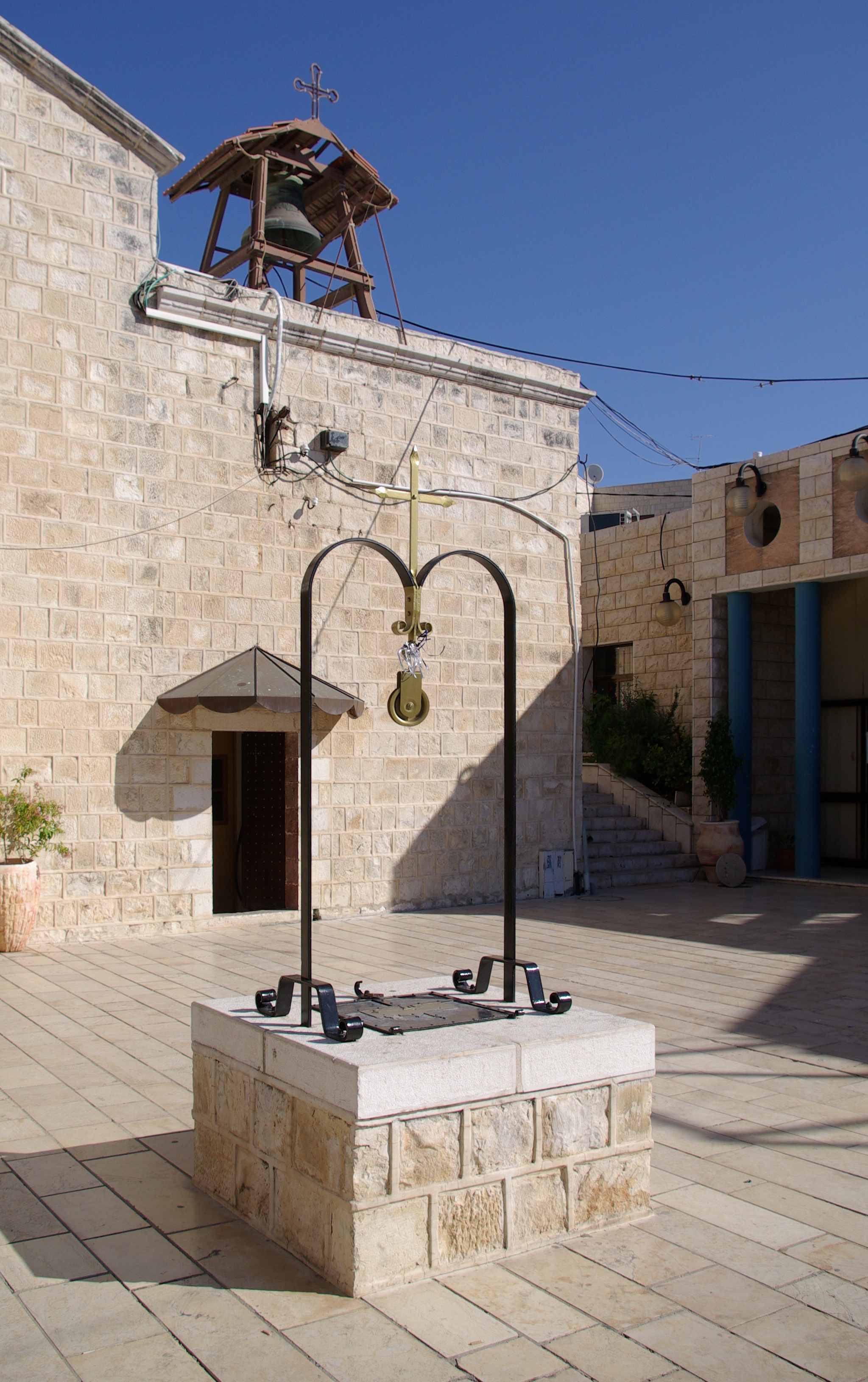 Greek Orthodox Church of the Archangel Gabriel, Nazareth